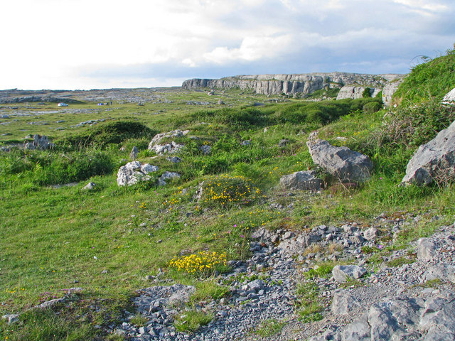 Ballyryan climbing crag, near the Ailladie sea-cliff, in The Burren, County Clare, Ireland